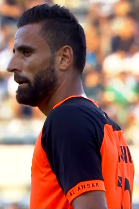 Abbas Ali Atwi with Ansar against Nejmeh during the 2019-20 Lebanese Premier League season